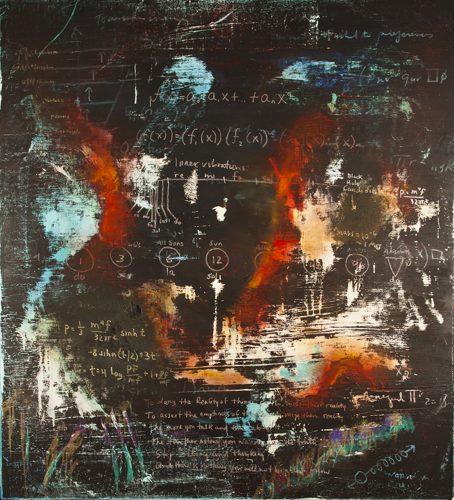 Painting by Adam Shaw